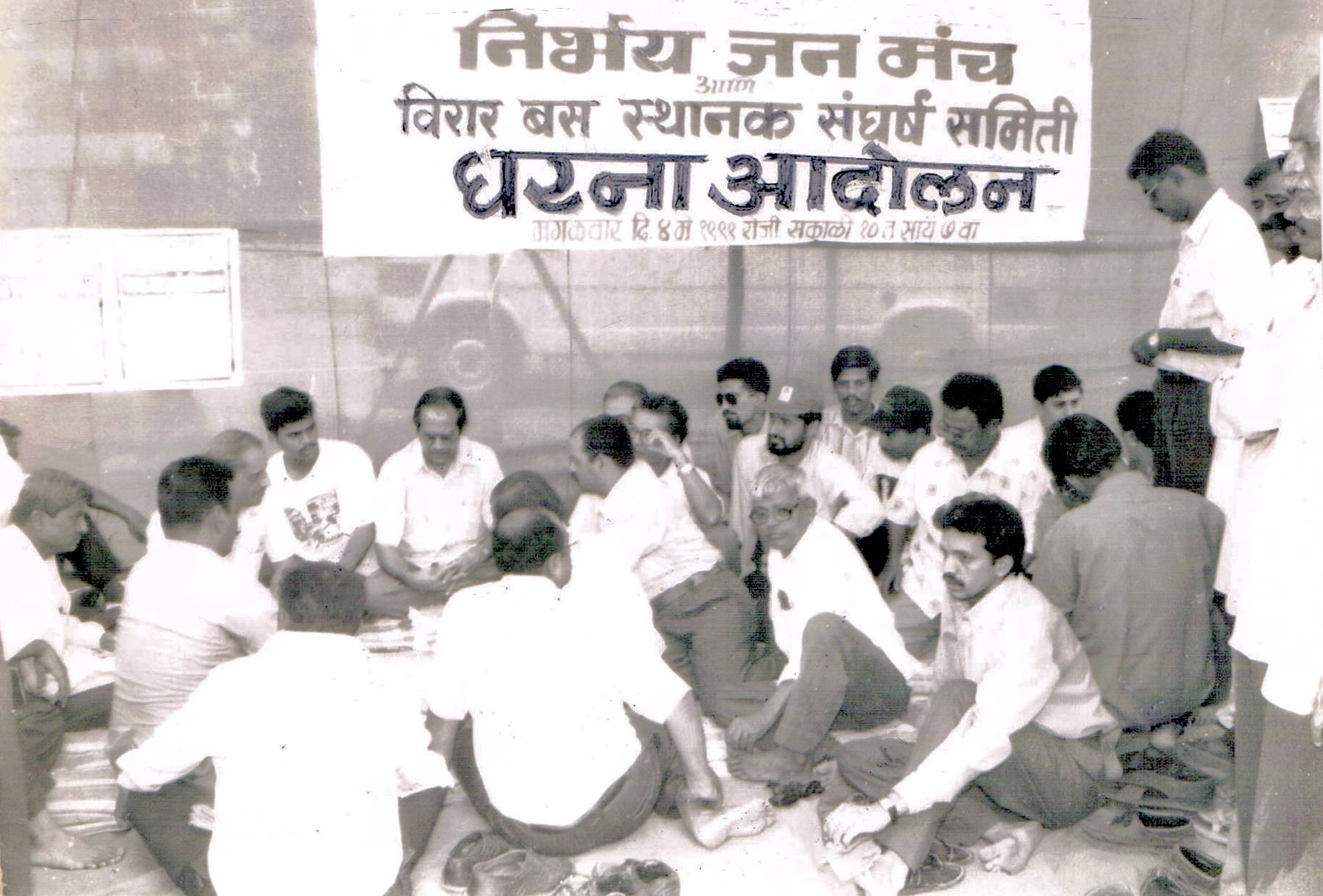 Dharna Andolan